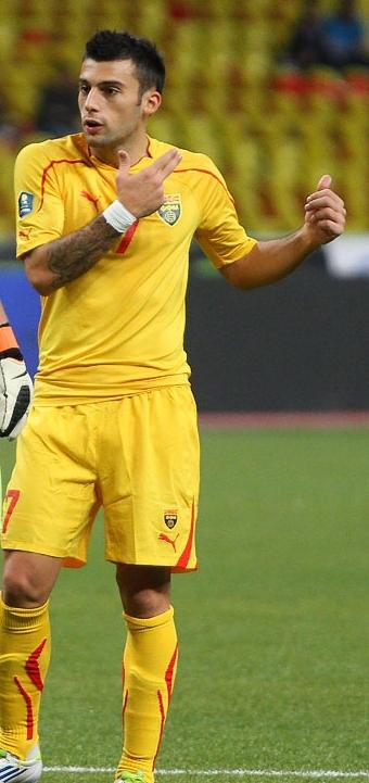 Ivan Tričkovski with Macedonia national football team.